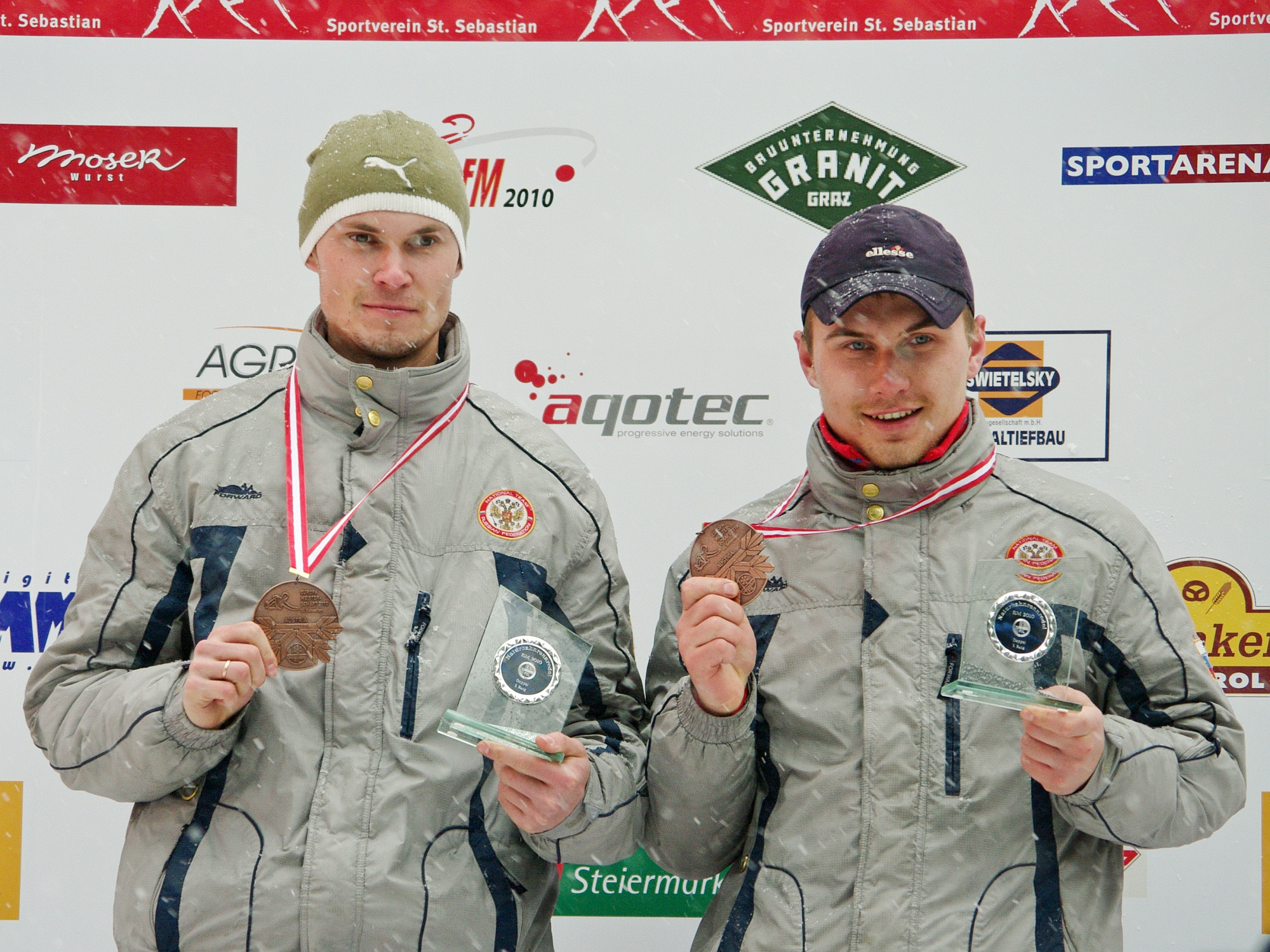 FIL European Luge Natural Track Championships 2010, Prize giving ceremony men's doubles: 3rd place: Aleksandr Yegorov (left) and Pyotr Popov (right) (RUS).